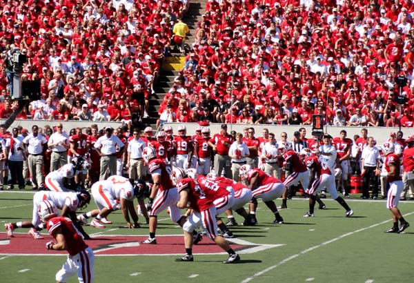 The Wisconsin Badgers college football team on offense against the Oregon State Beavers near midfield at Camp Randall Stadium in Madison, Wisconsin, USA.